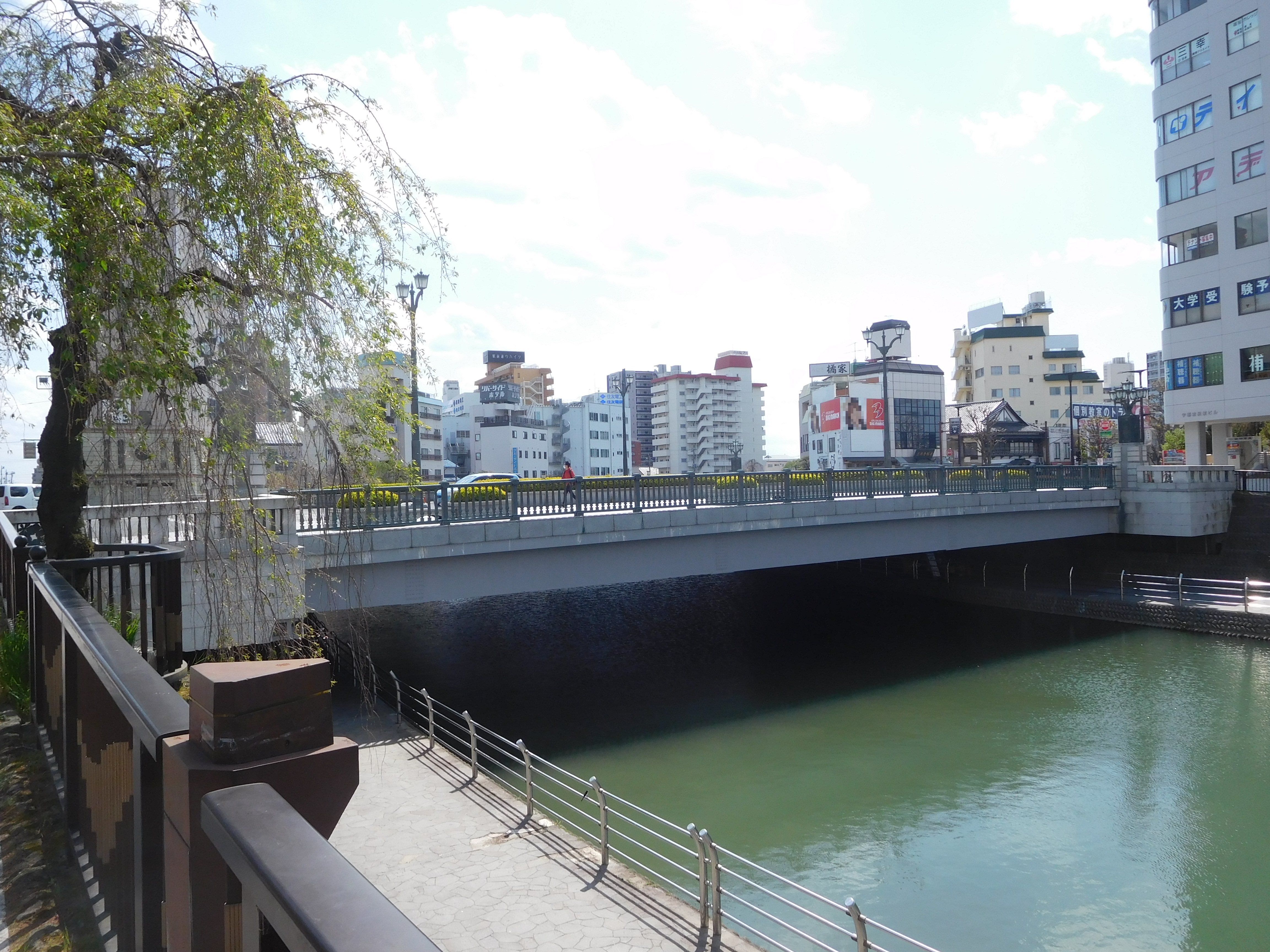 This is Miya no Hashi Bridge in Ustunomiya, Tochigi, Japan.